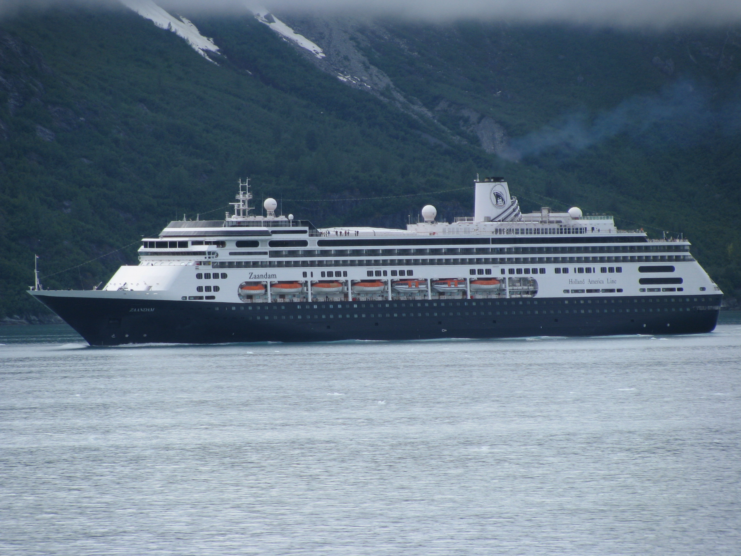 MS Zaandam in Glacier Bay, AK, USA